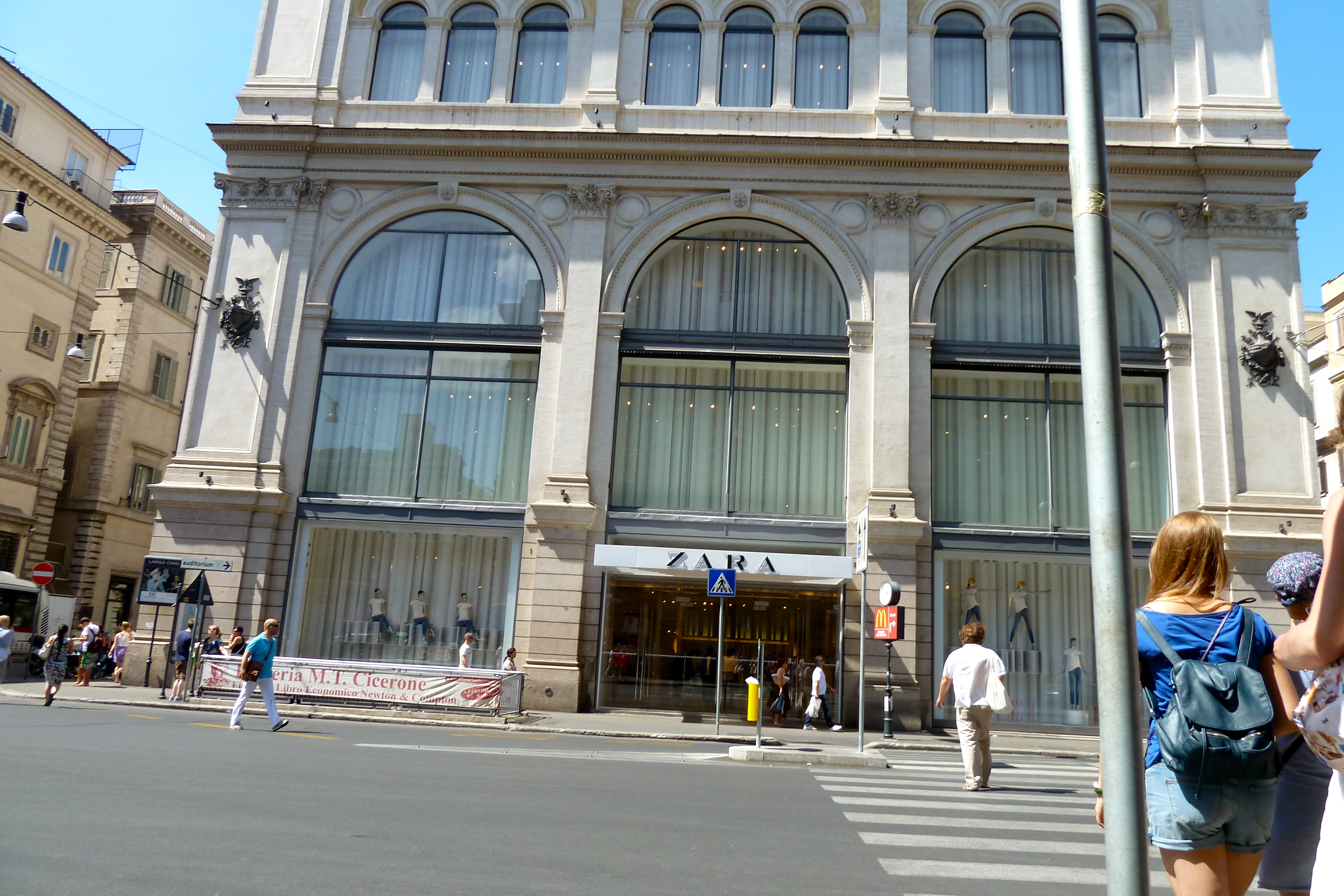 Large Zara store in Rome, Via del Corso